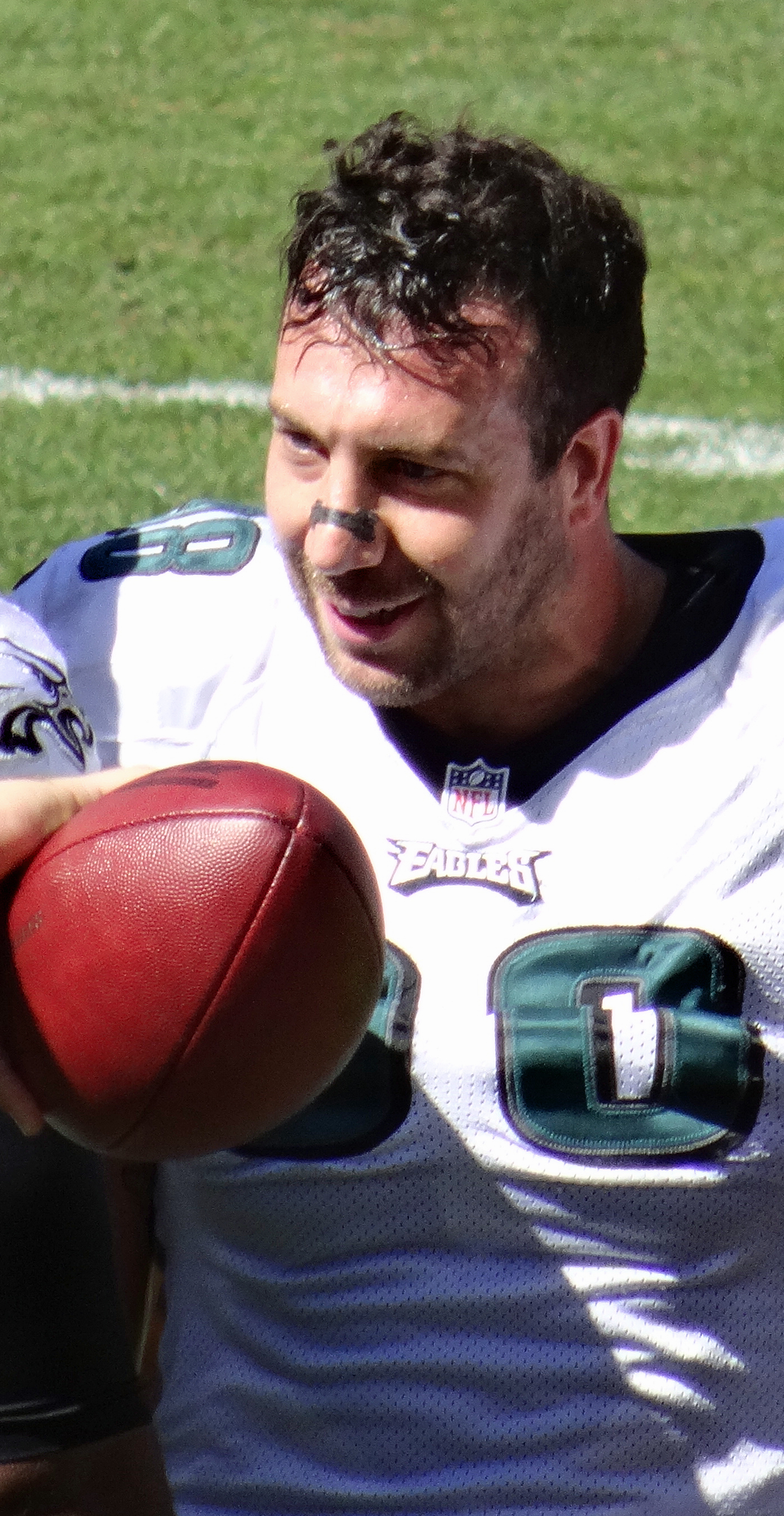 Connor Barwin, a player on the National Football League.